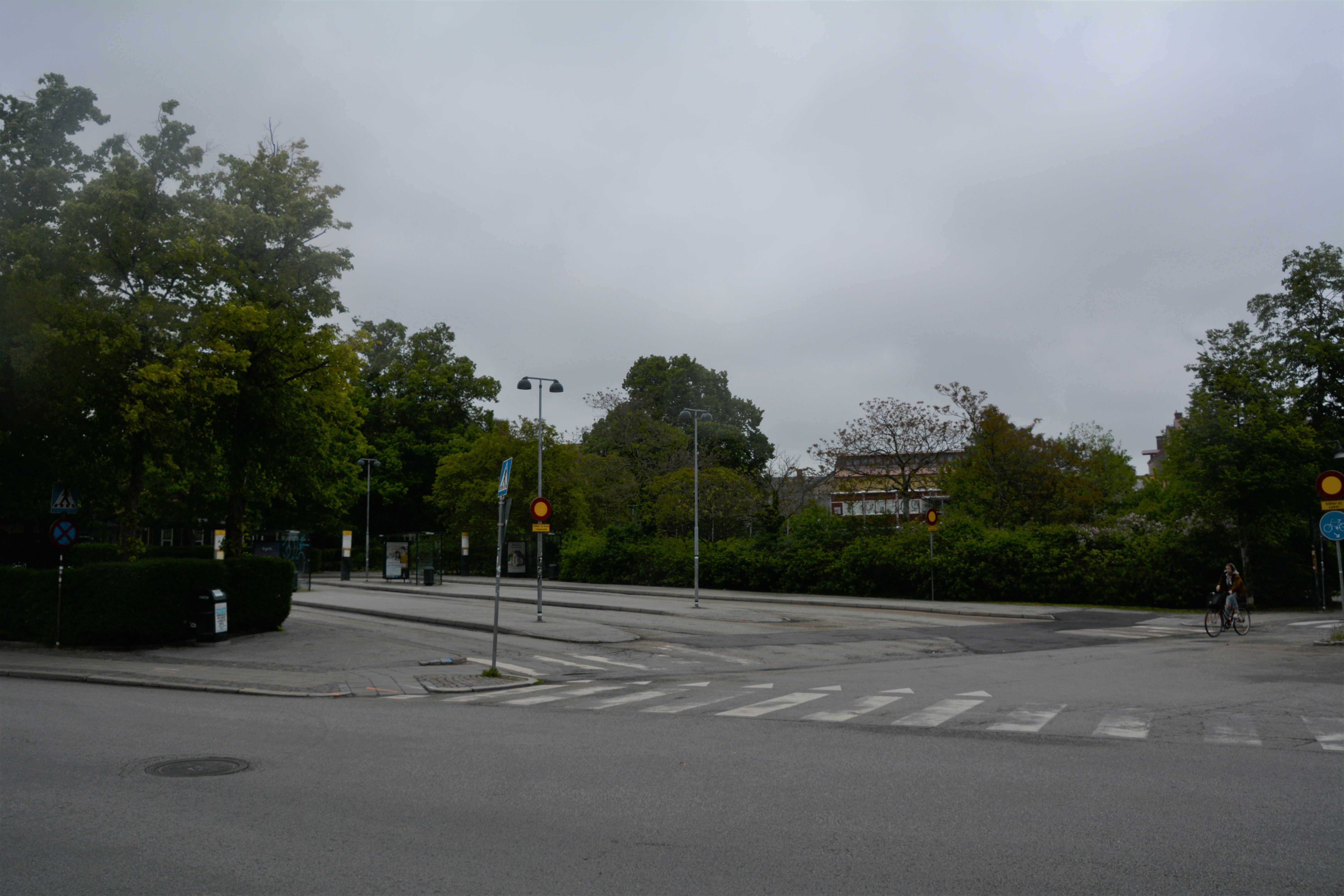 Bus terminal at Bankgatan, Lund, seen from the crossing of Lilla Tvärgatan and Bankgatan